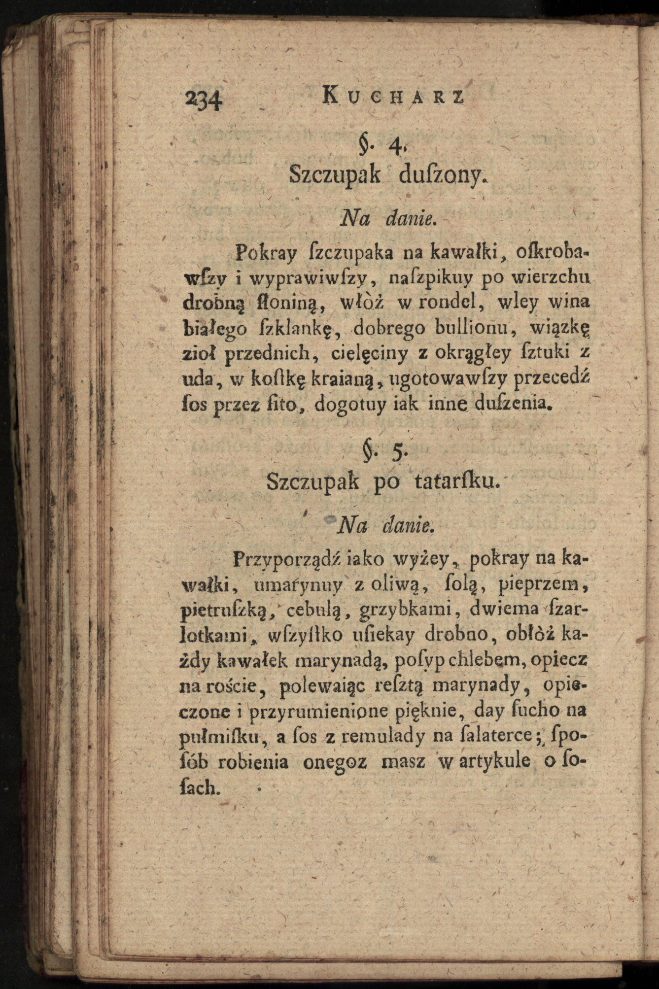 Scan of a page from book "Kucharz doskonały", printed in Poland in 1783, autohred by Wojciech Wielądko (died 1822) with recipes for pike, in particular pike a la Tartare